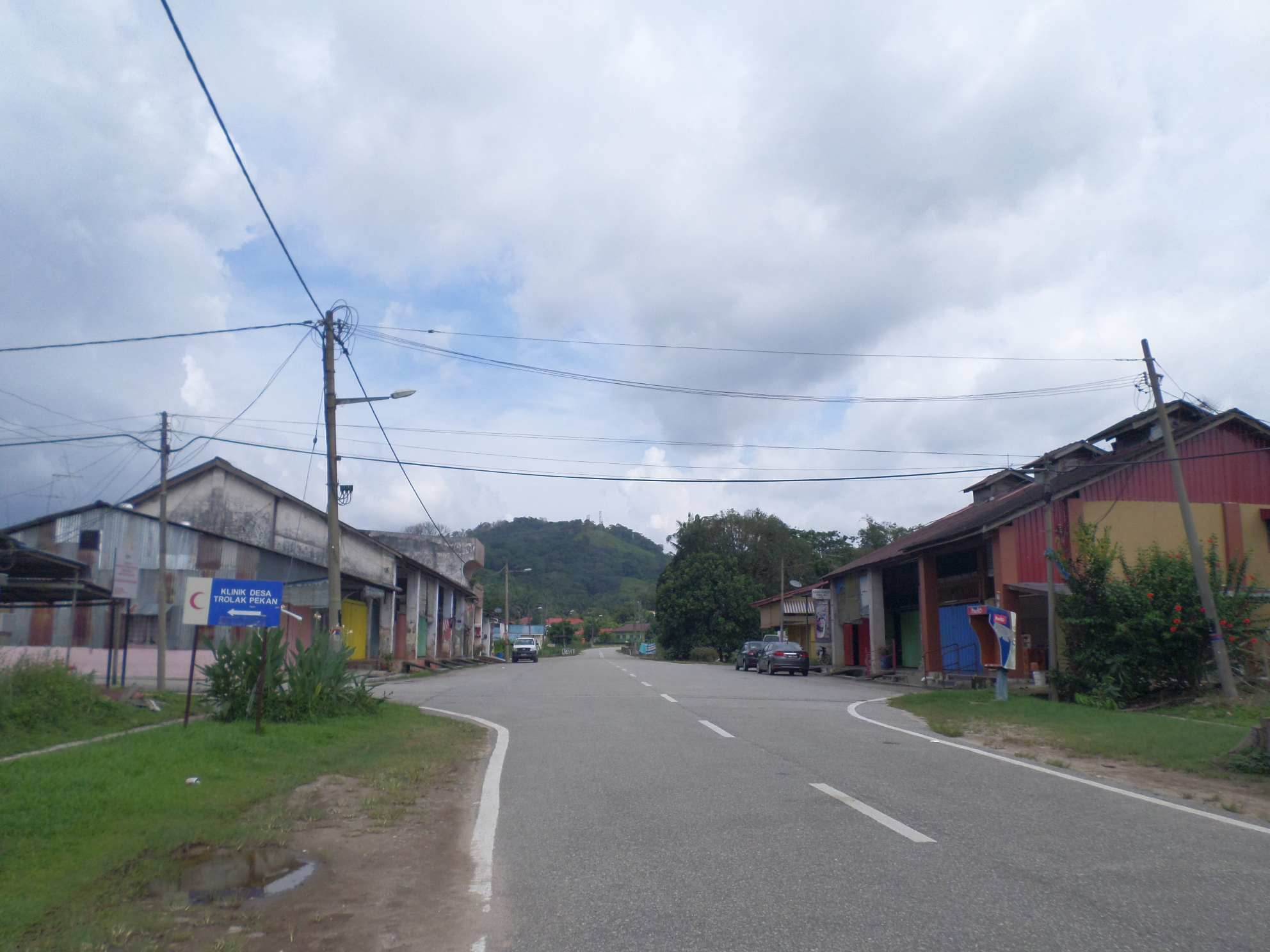 Trolak, Batang Padang, Perak, MalaysiaBahasa Melayu: Trolak, Batang Padang, Perak, Malaysia